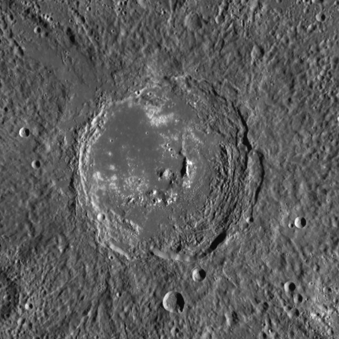 Zeami crater, on Mercury. MESSENGER Wide Angle Camera mosaic. Image is approximately 230 km wide.